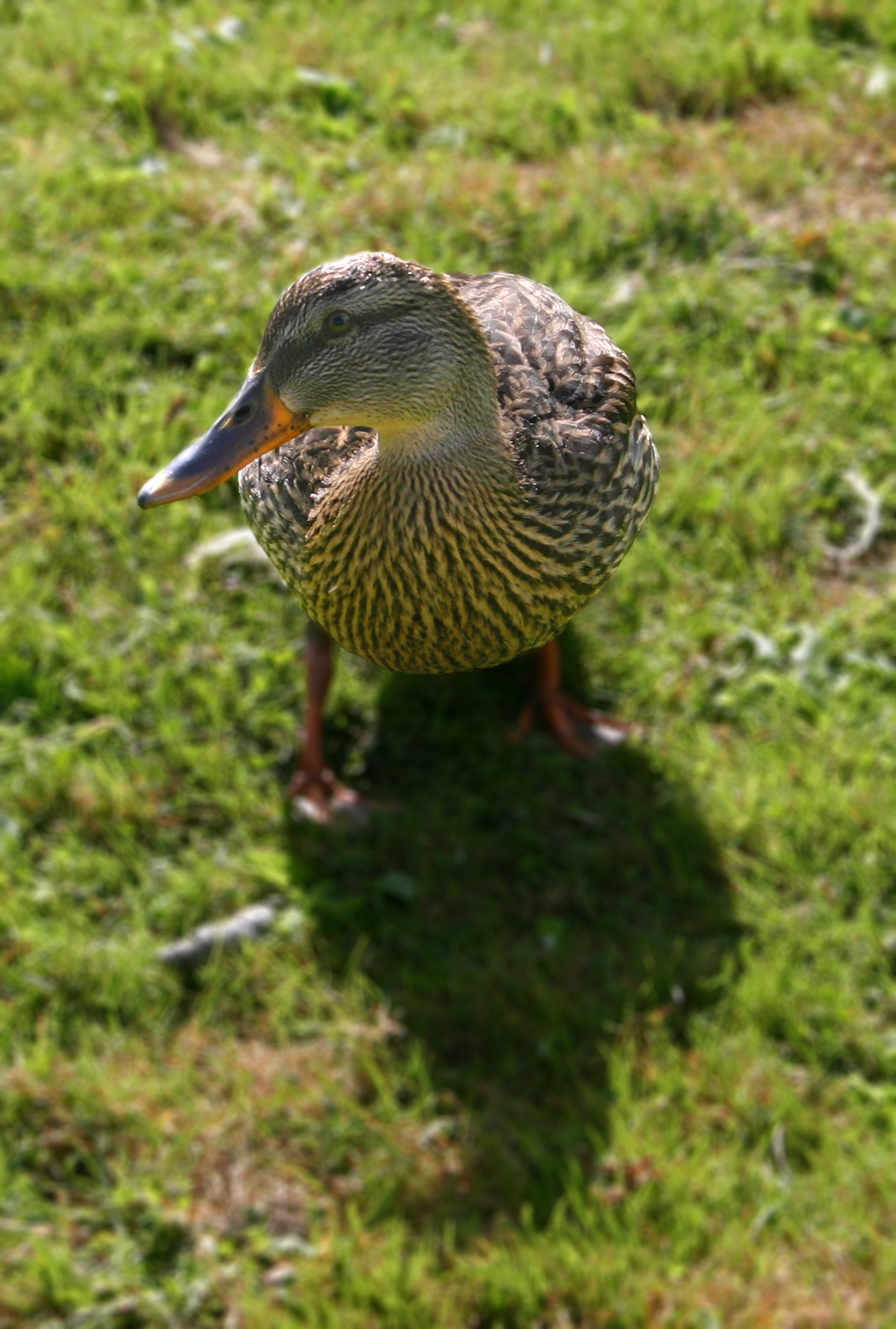 A duck wandering around near the lake at Shippee Hall at the University of Connecticut.